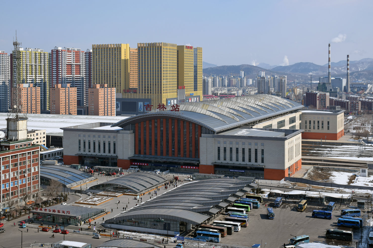 West Square of Jilin Railway Station